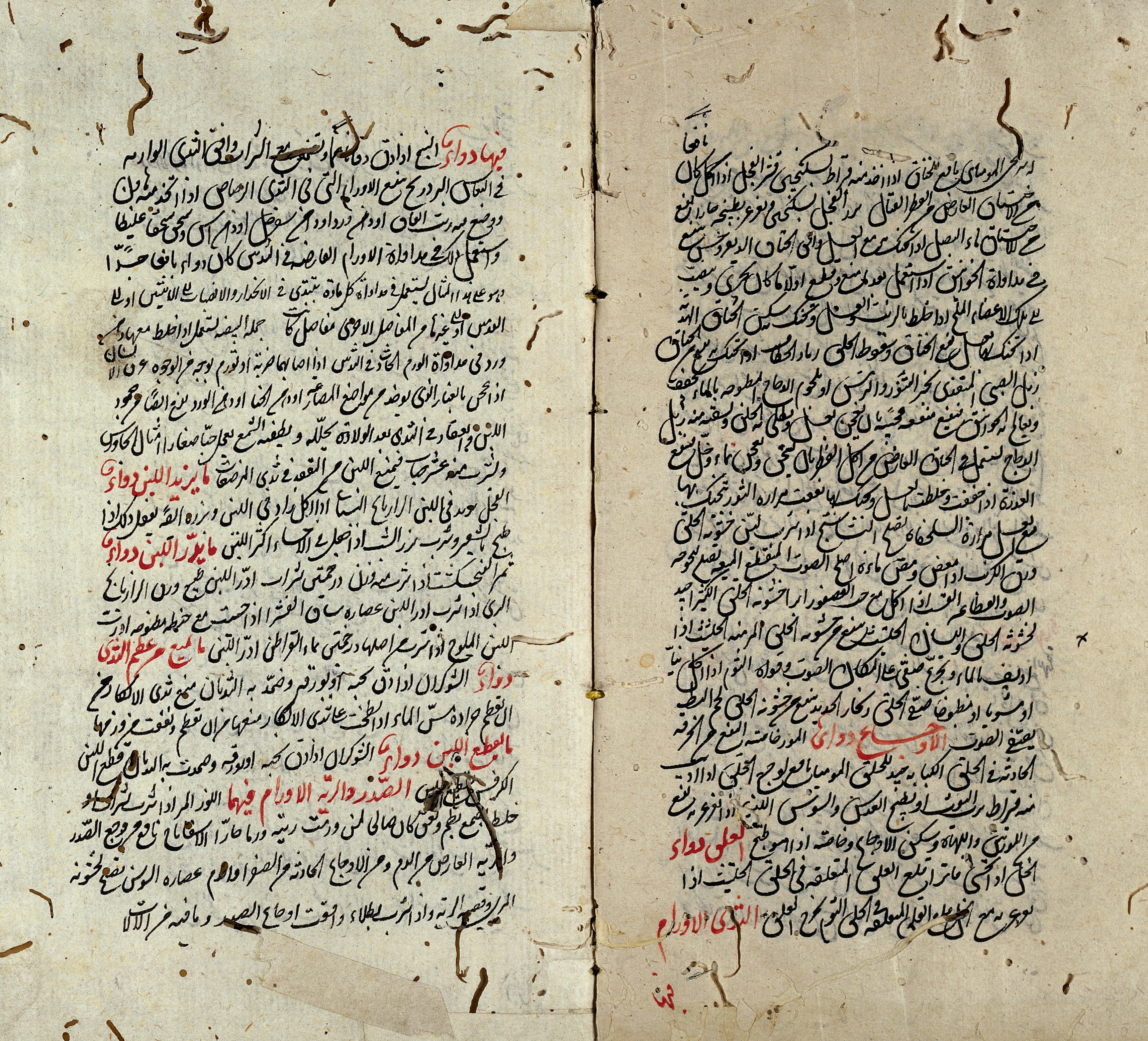 Al-Wisad (The Pillow) folios 21 verso and 22 recto. Asian Collection